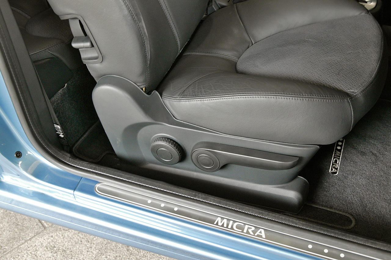 Nissan Micra CC Seat adjuster